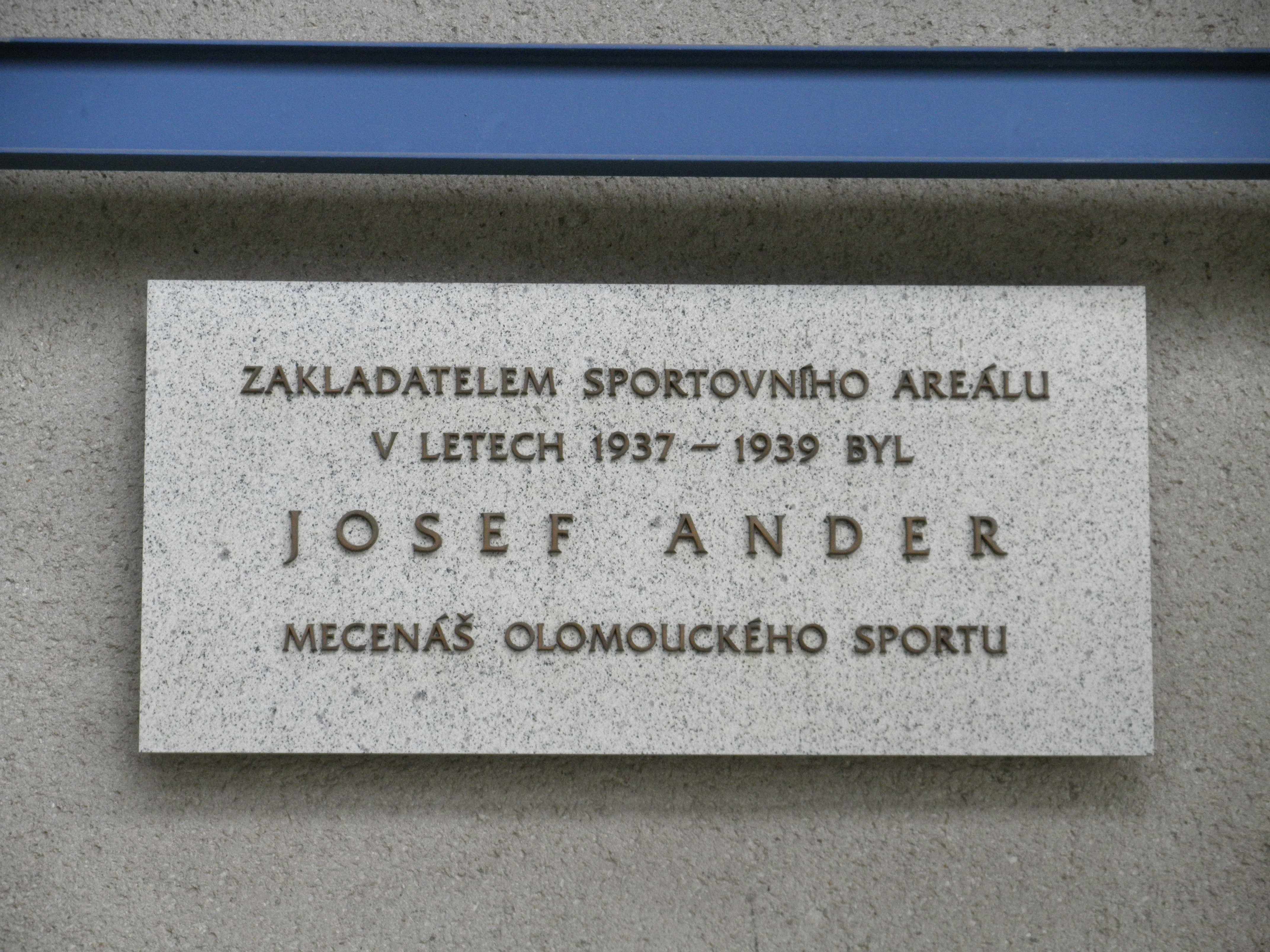 Memorial plaque of Josef Ander at 1165/12 Legionářská street, Olomouc, 49°36'1.509"N, 17°14'50.905"E. There is written on the plaque in the Czech language: The founder of the sporting area was in 1937-1939 Josef Ander patron of sport in Olomouc